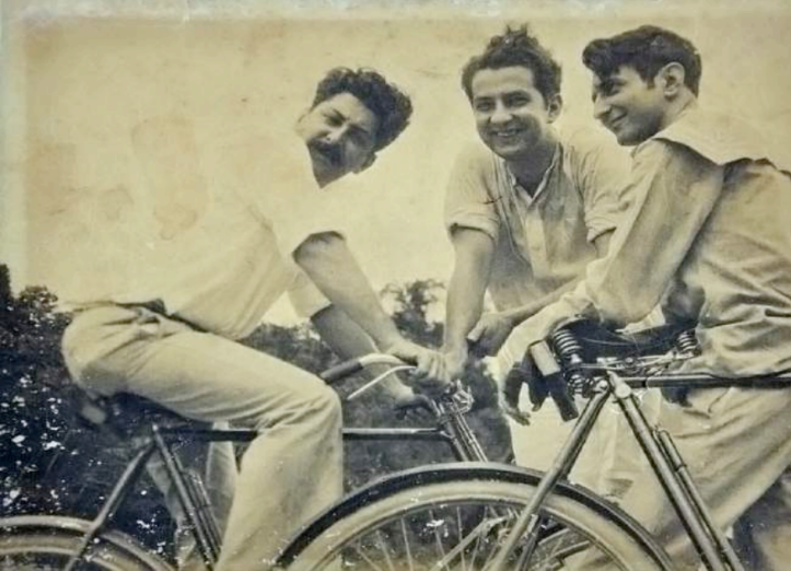 From left to right: Ulysses Freyre, Carlos Lemos, Gilberto Freyre.